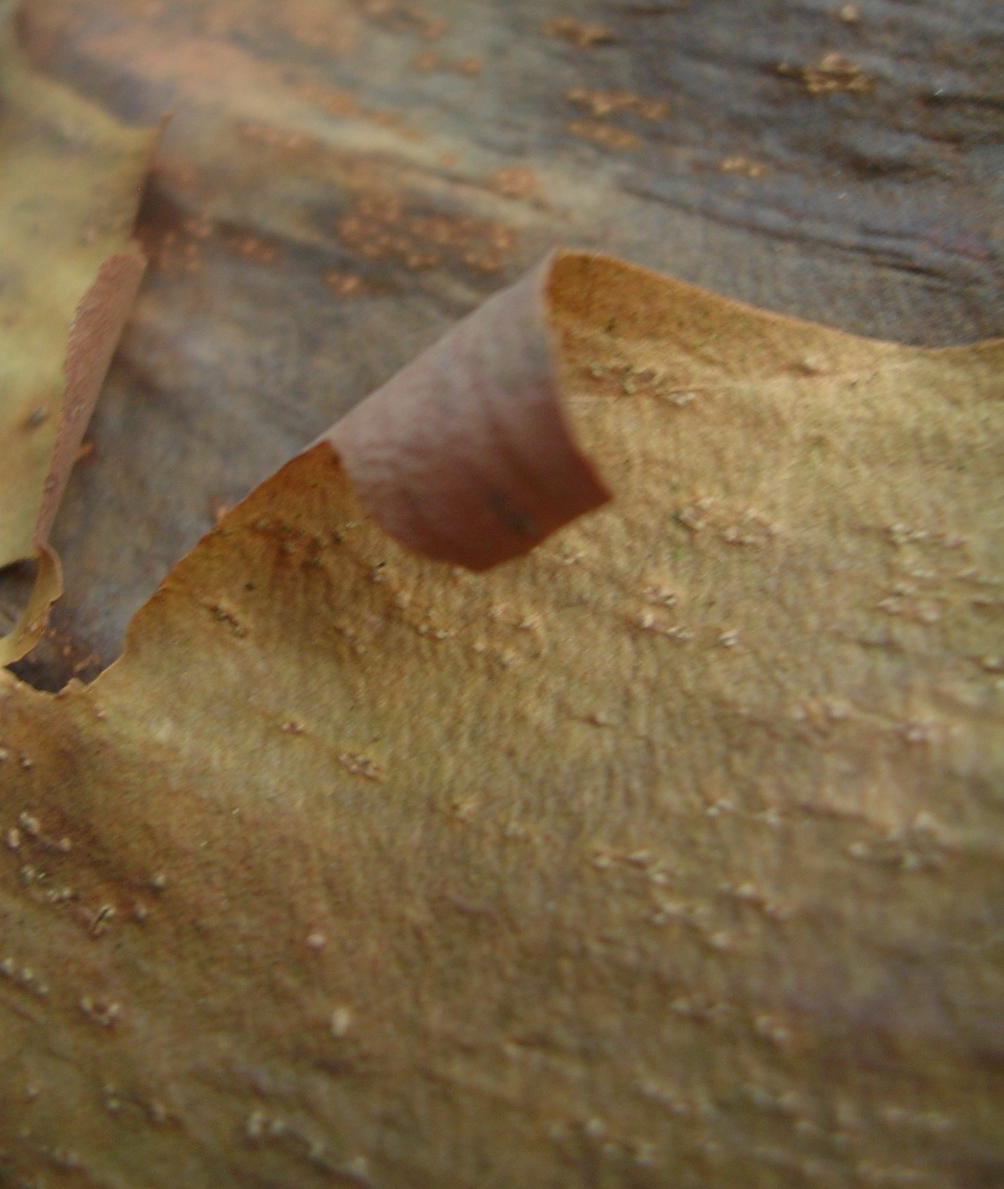 Acer griseum Bark CloseupSlovenščina: Lubje sivega javorja